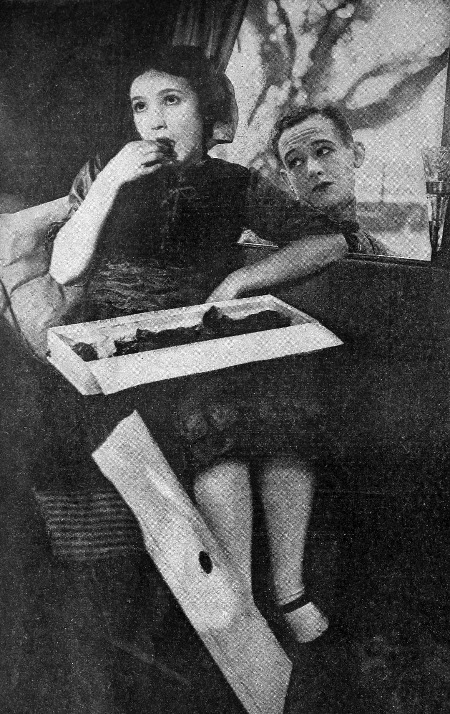 Still from the American drama film Pegeen (1920) with Bessie Love and Charles Spere, on page 42 of the February 1920 Motion Picture Magazine.